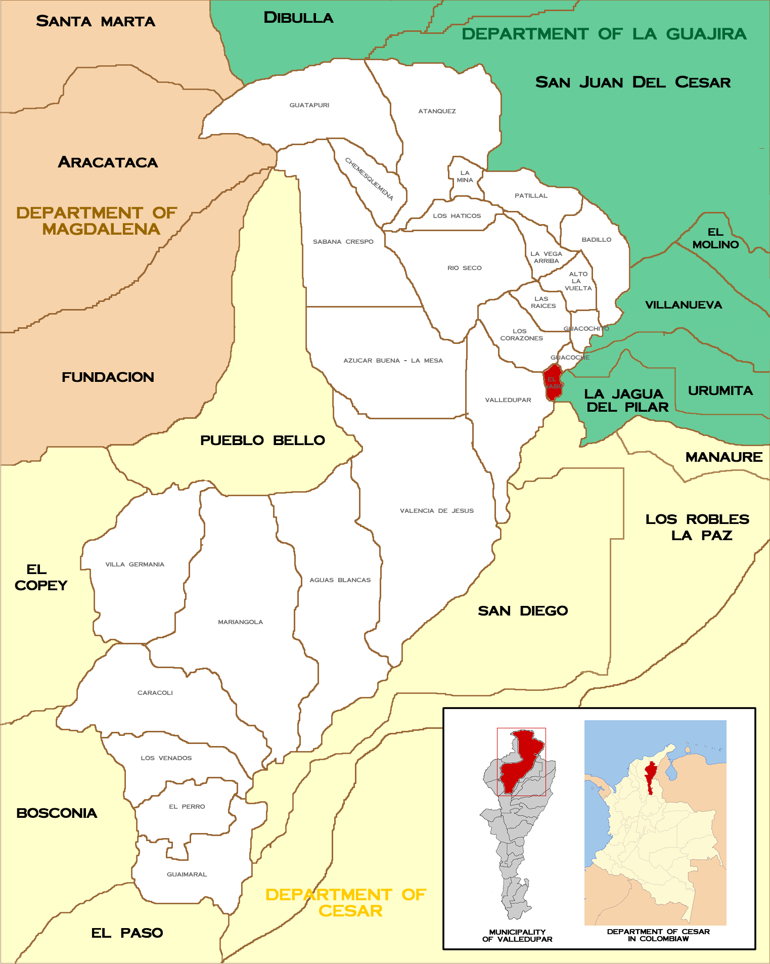 Map of Corregimientos of Valledupar, El Jabo